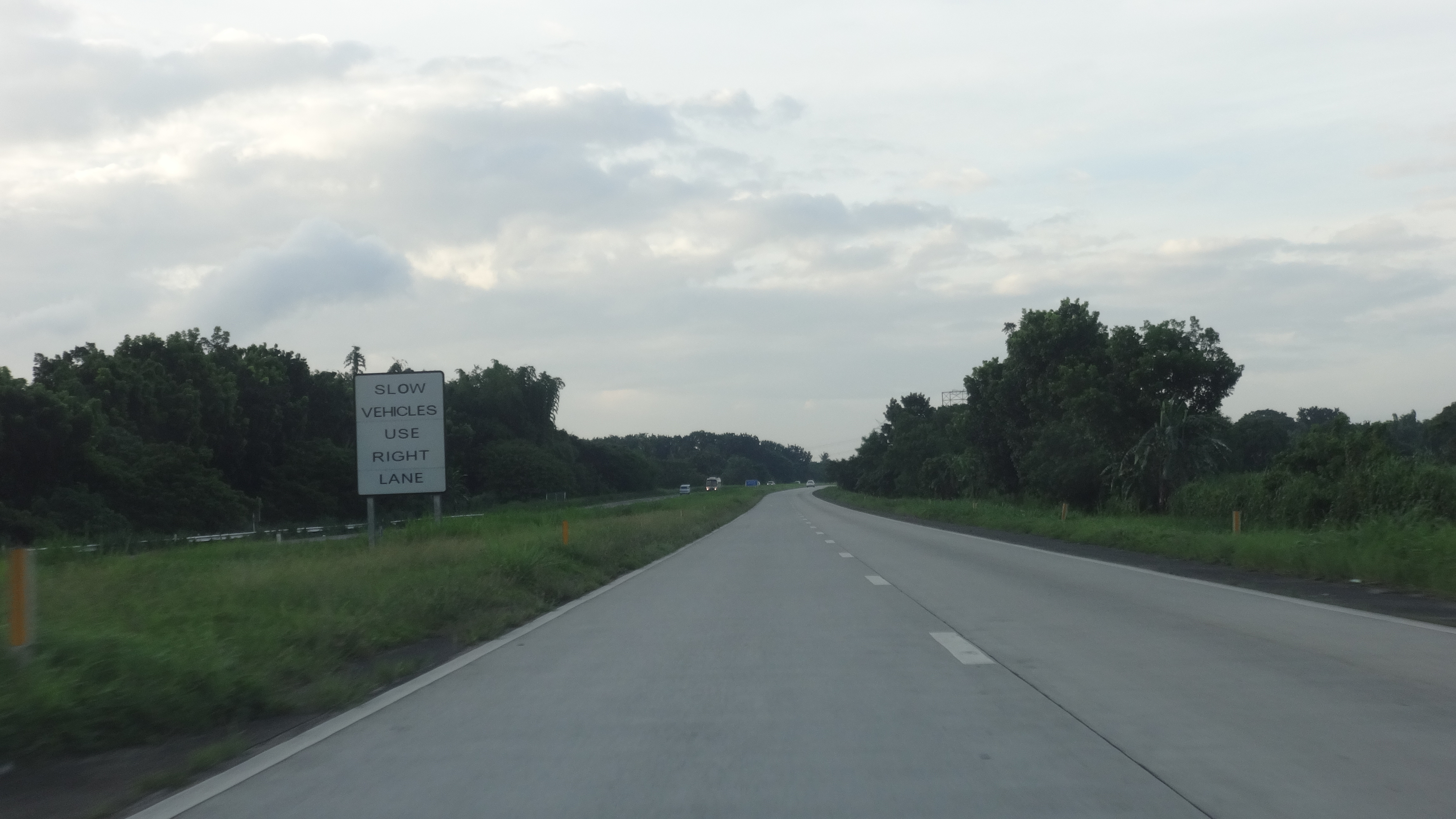 Part of Star Tollway in Ibaan, Batangas